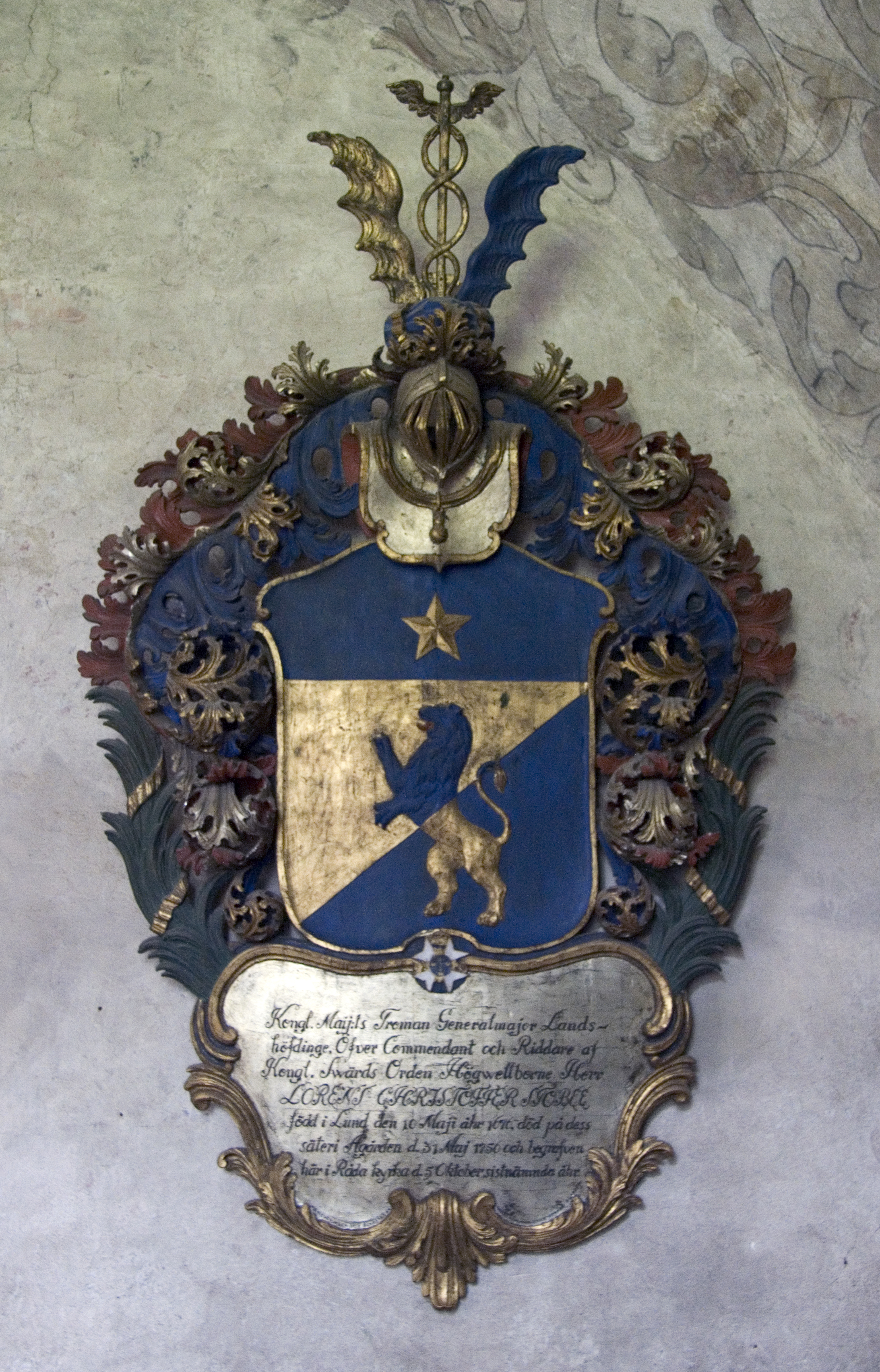 Funeral escutcheon for Lorentz Kristoffer Stobée (1676-1756). Råda church, Lidköping municipality.